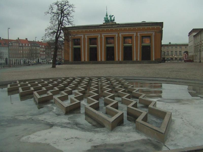 Bertel Thorvaldsens Plads in Copenhagen, Denmark. Jørn Larsen's water feature, Thorvaldsens Museum in the background